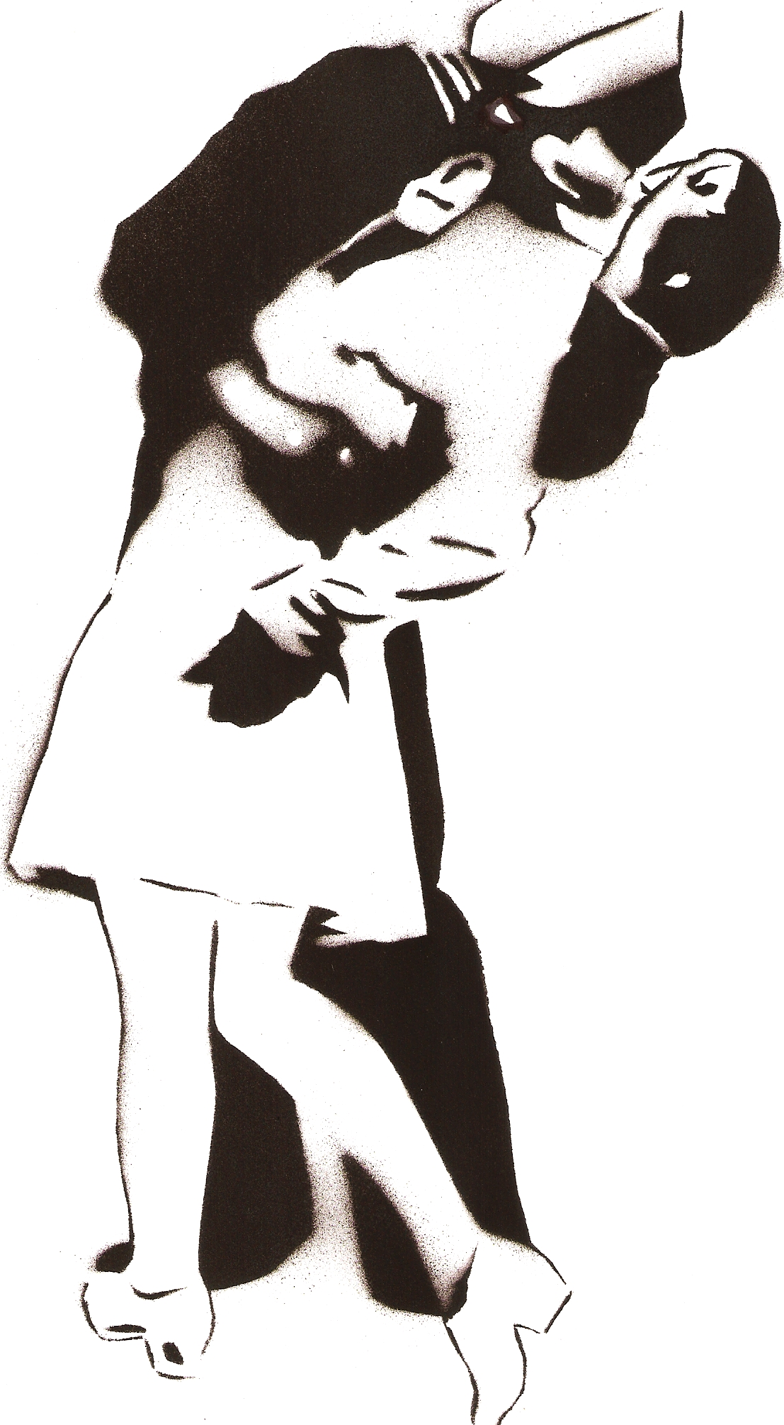 card stencil spray paint (from a photocopy of the the famous VJ day image by Alfred Eisenstaedt)